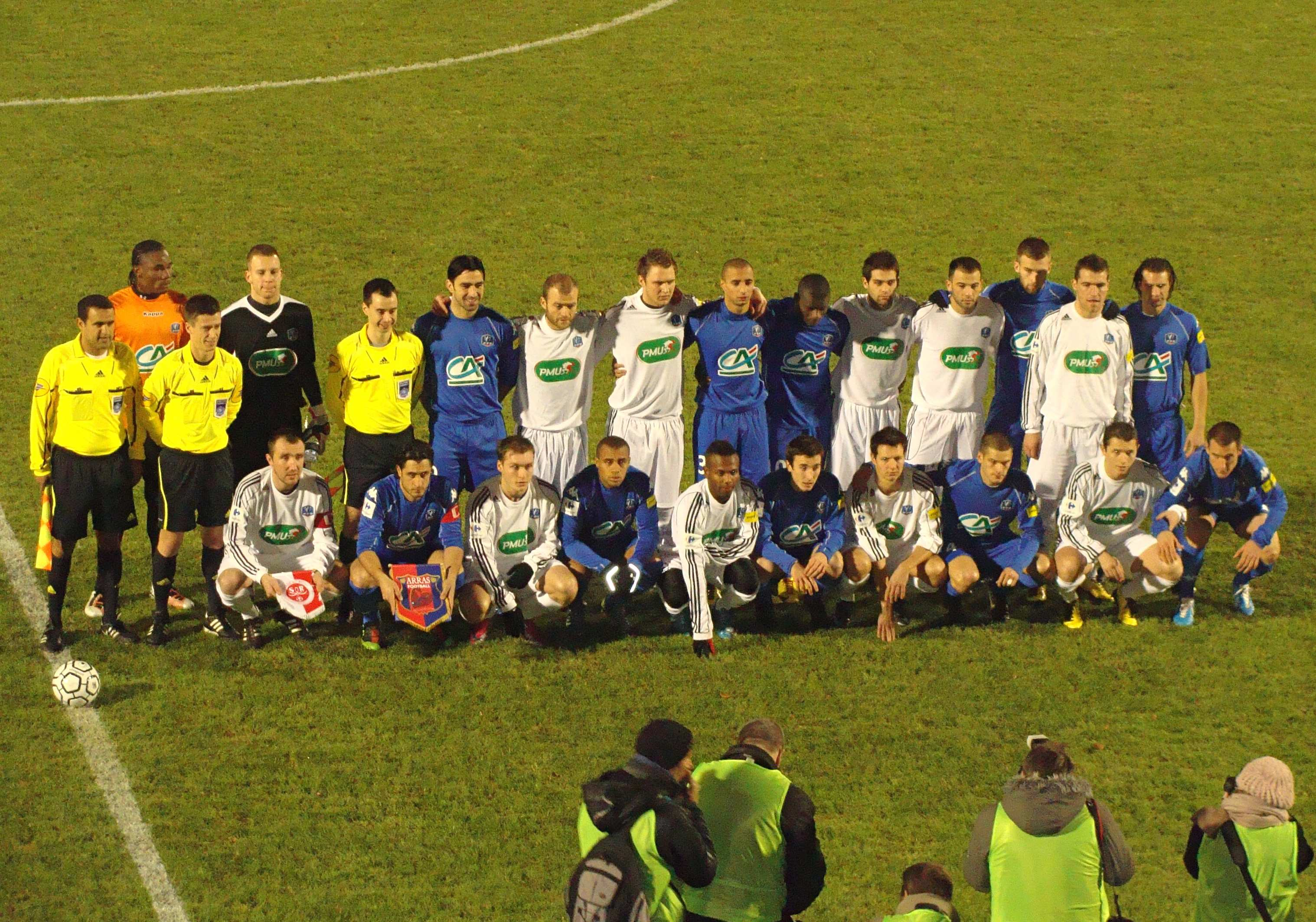 Arras vs Reims Coupe de France 2010-2011